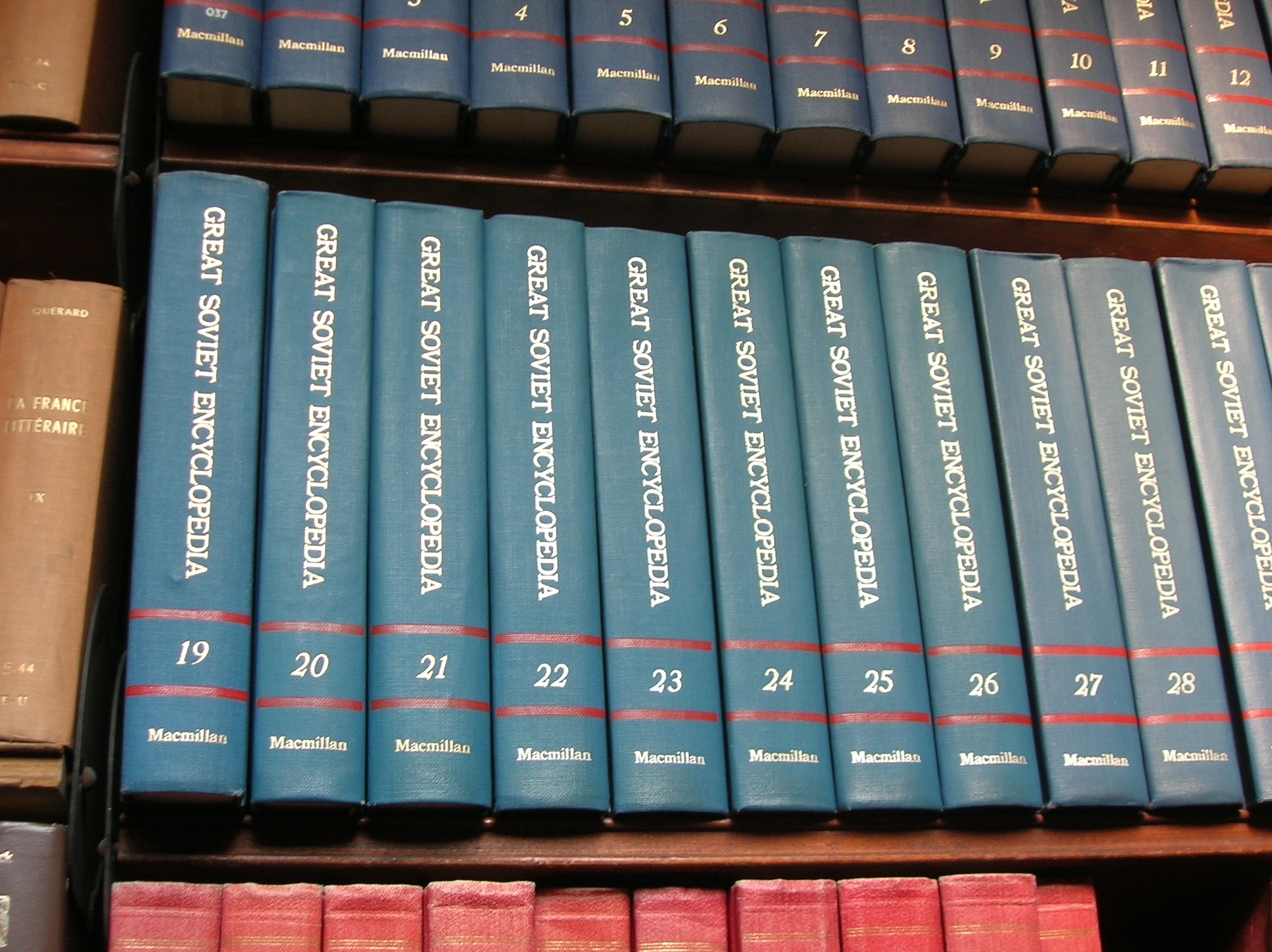 The Great Soviet Encyclopedia, English edition. Seen in the Bristol Central Library.